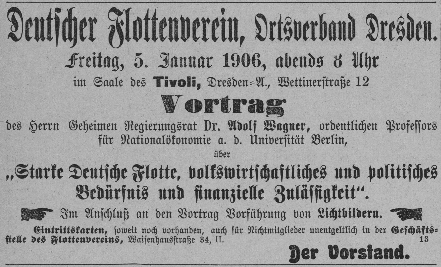 Scan from the Dresdner Journal, 1906